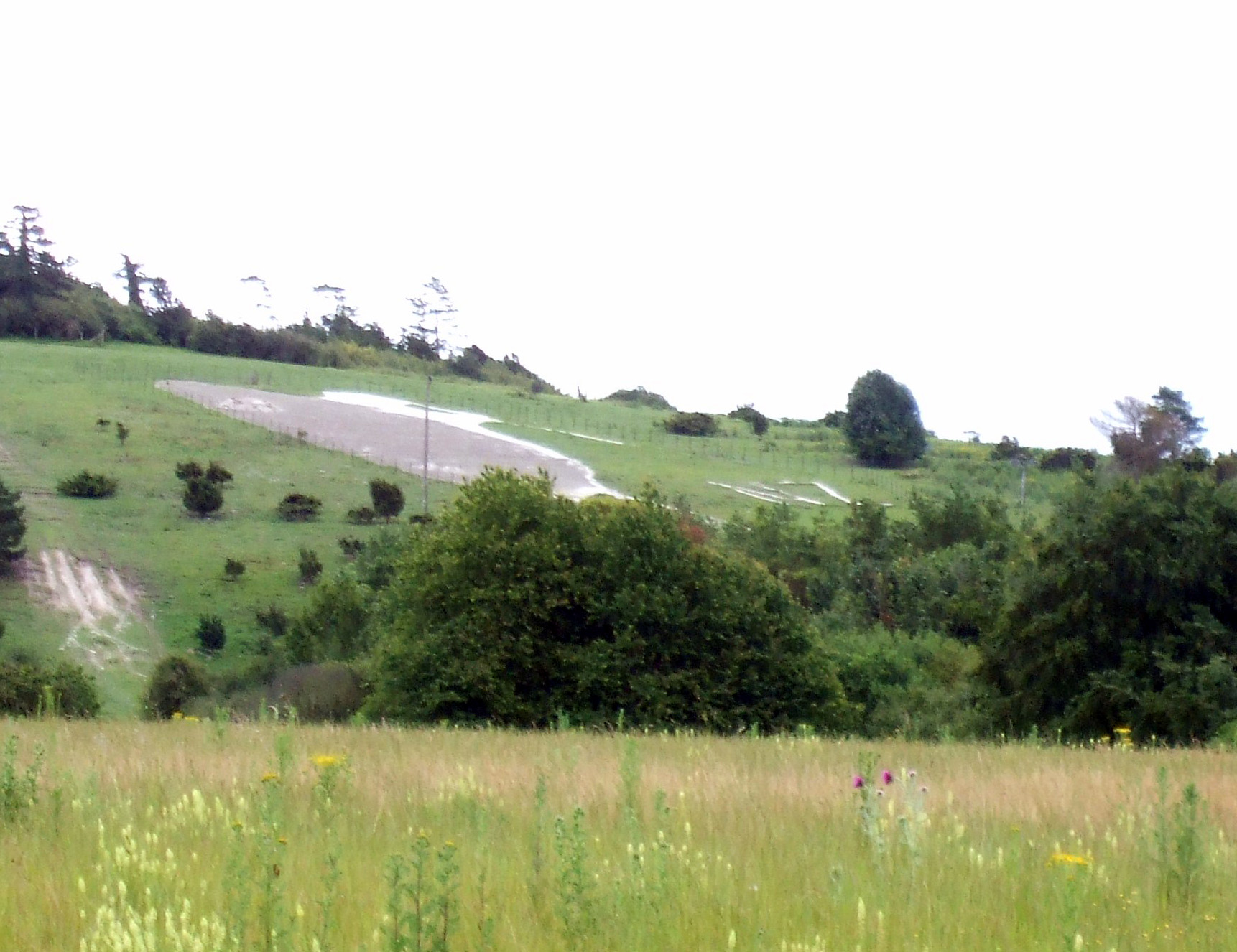 The Bulford Kiwi before its clean in 2007.